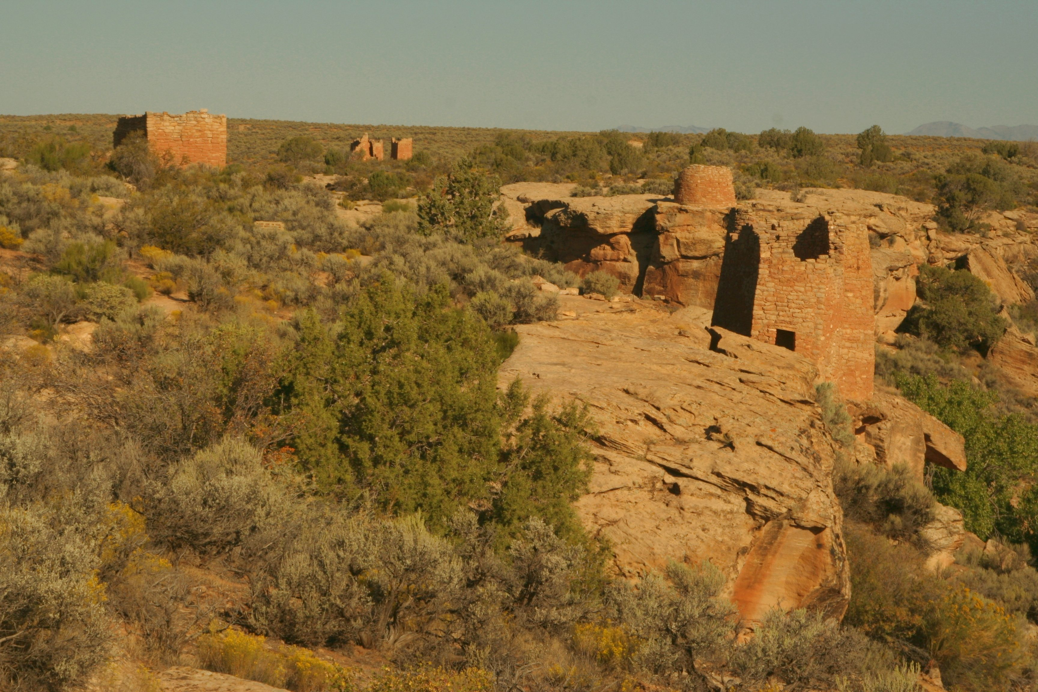 Hovenweep